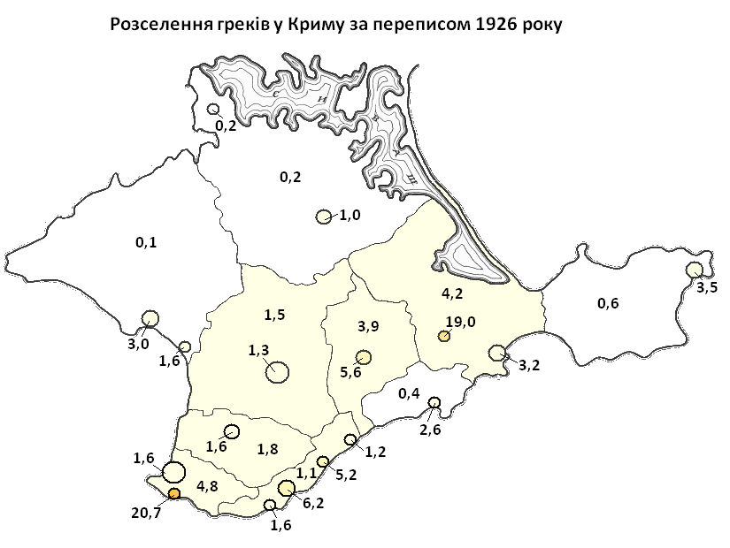 Percentage of greeks in Crimea according to 1926 census